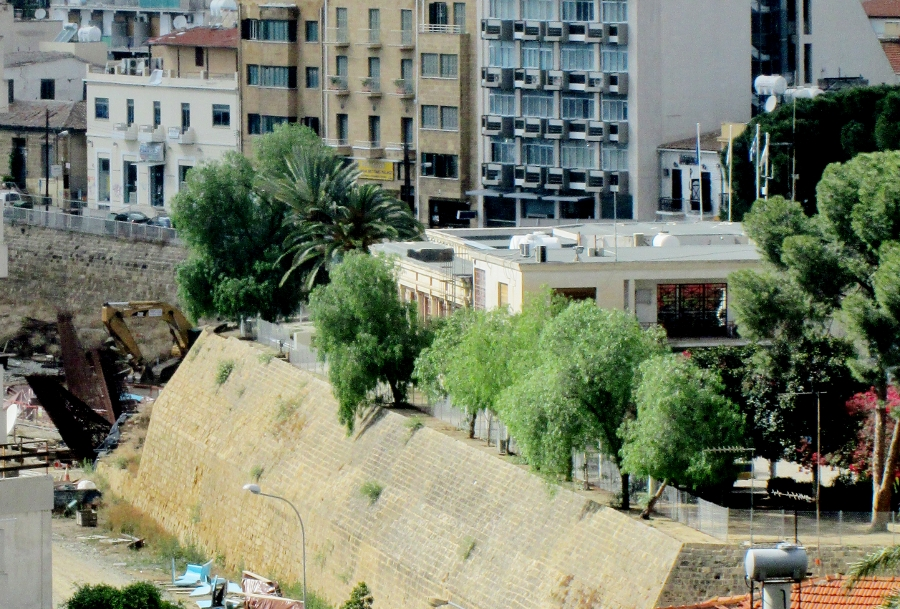 Eleftheria Liberty Square under full construction Nicosia Cyprus